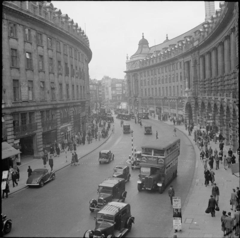 On the Move in Wartime London, 1942 A busy scene in London's Regent Street as a bus, taxis, cars and pedestrians go about their daily business. The photograph is taken looking towards Piccadilly Circus, and the boarded-up Eros and posters in Piccadilly Circus can just be seen in the background. On the left of the photograph is the Quadrant Arcade and on the right, Piccadilly Hotel. A man with a sandwich board can be seen in the bottom right hand corner of the photograph, advertising railway lost property.